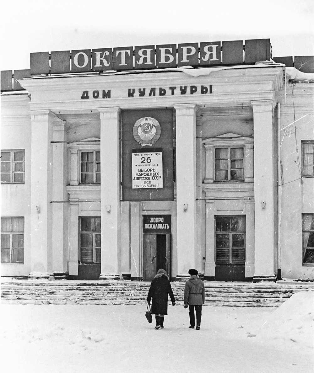 Election of People's Deputies of the USSR at the Culture Hall of the Cinema film factory, Pereslavl.